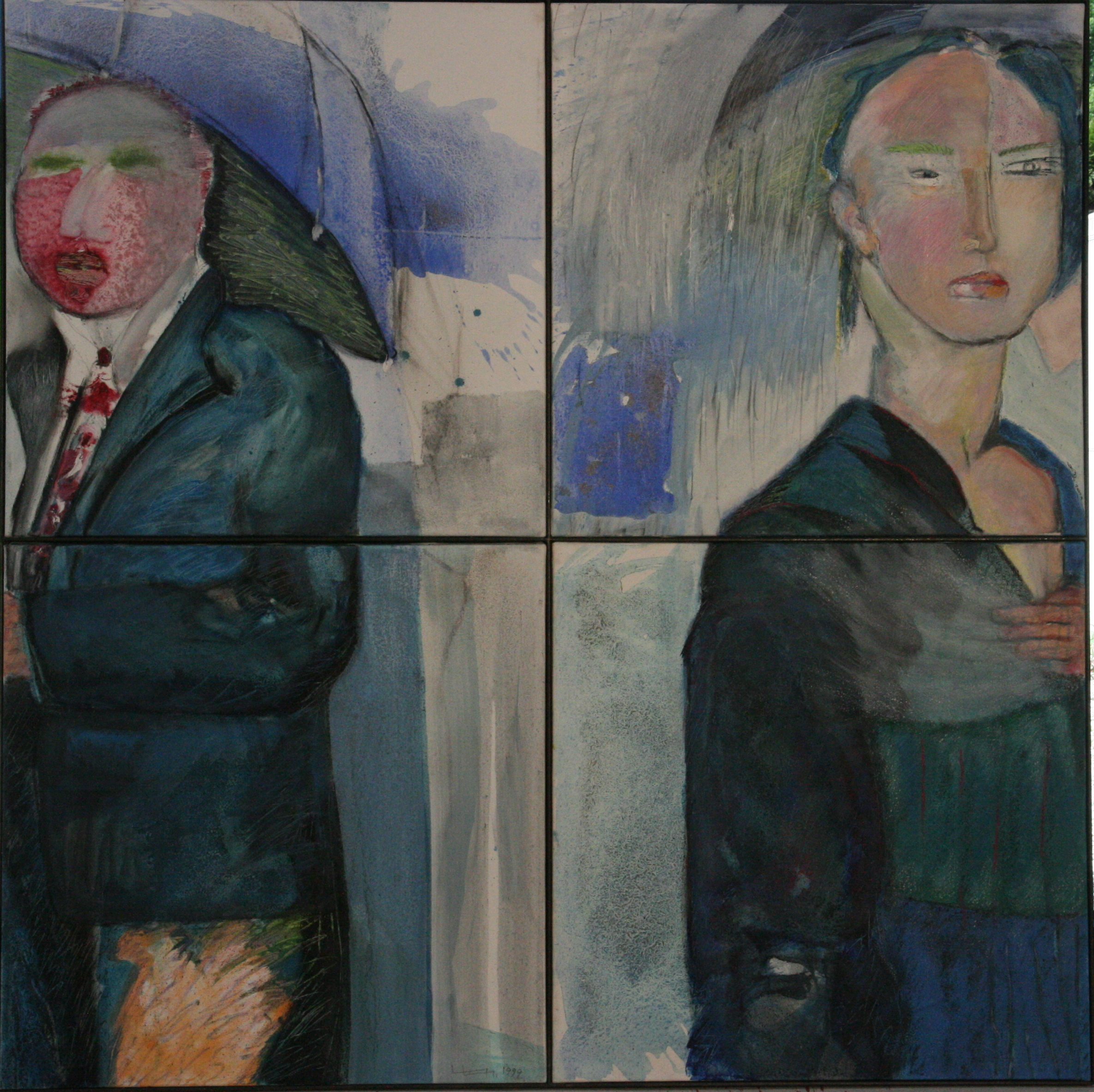 The Couple, The Possibility to Make It, :ModulArt painting by Leda Luss Luyken